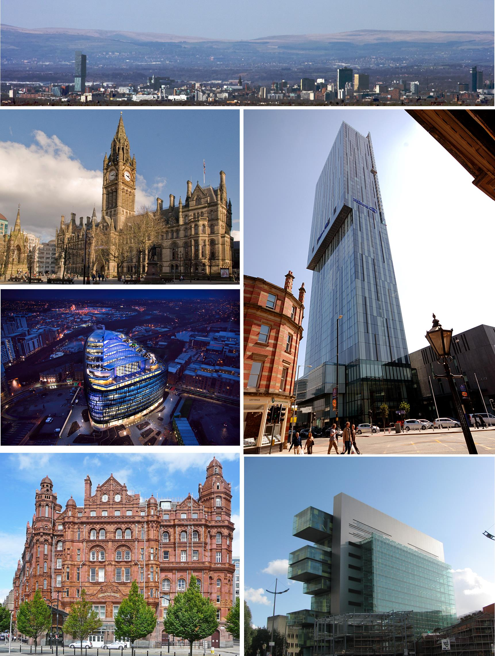 Montage of Manchester 2012